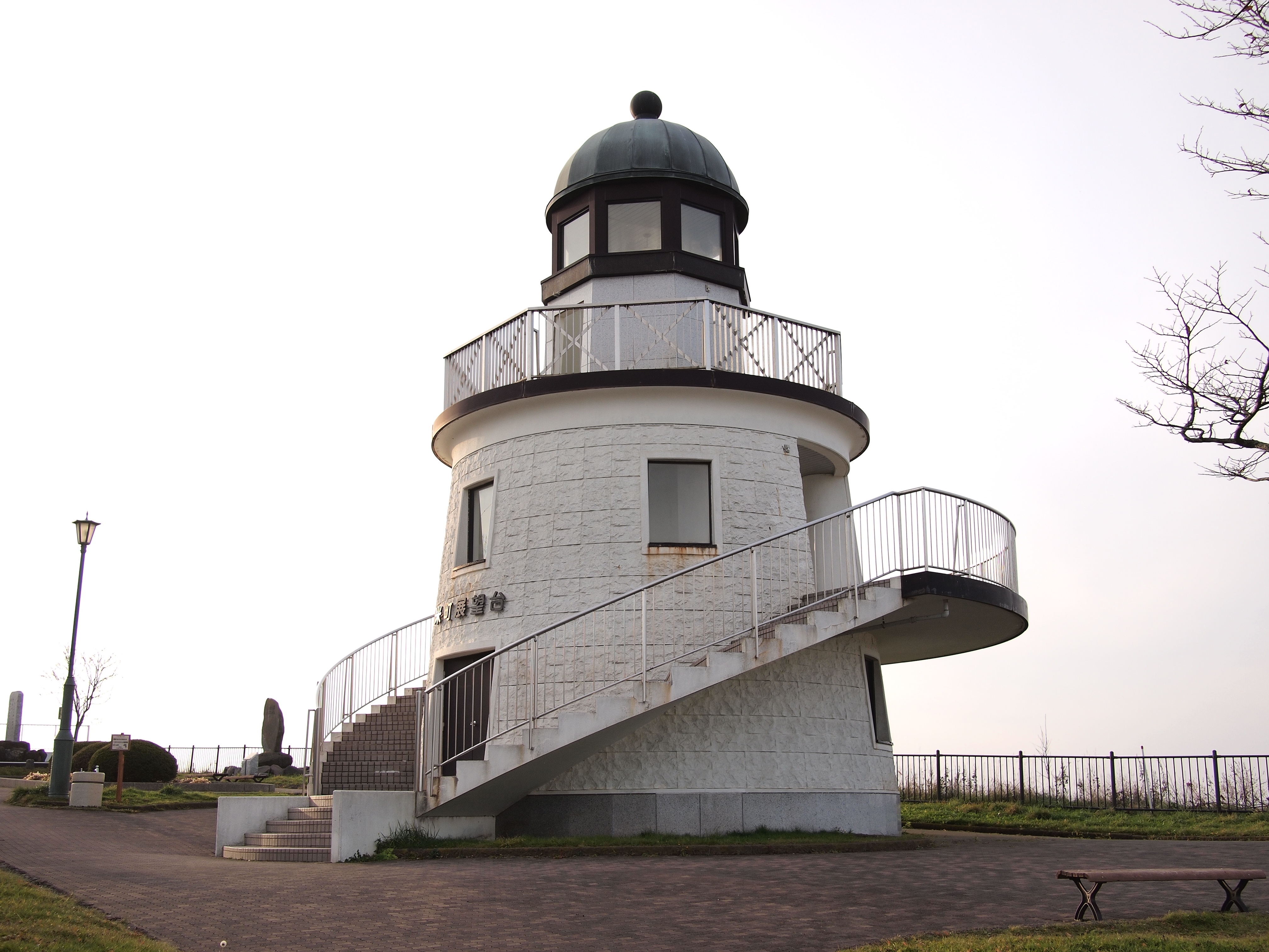 Yonemachi Observation Tower, Kushiro, Hokkaido, Japan